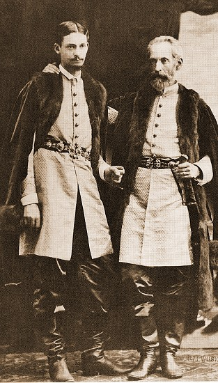 Prince August Czartoryski (later beatified by Pope John Paul II) with his father Władysław Czartoryski.